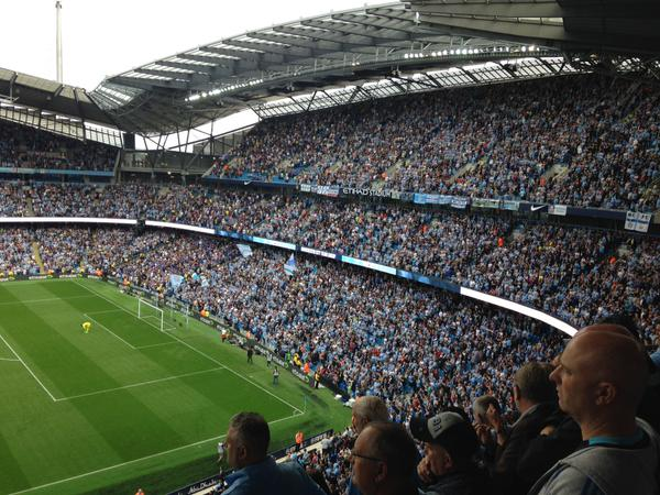 Credits: @JRB - bluemoon